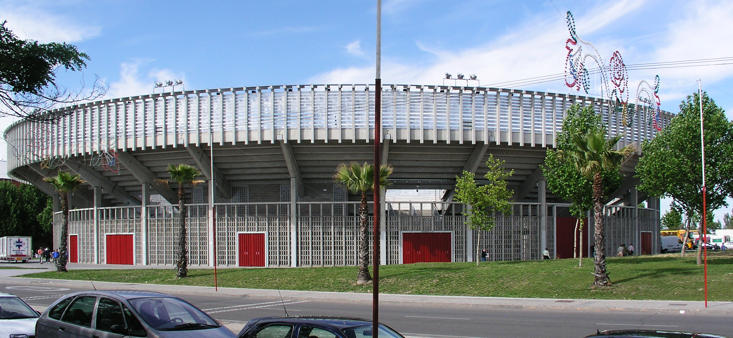 Plaza de Toros, Getafe, Madrid, Spain. Inaugerated 29th of May, 2004. Number of spectators: 5000 persons.